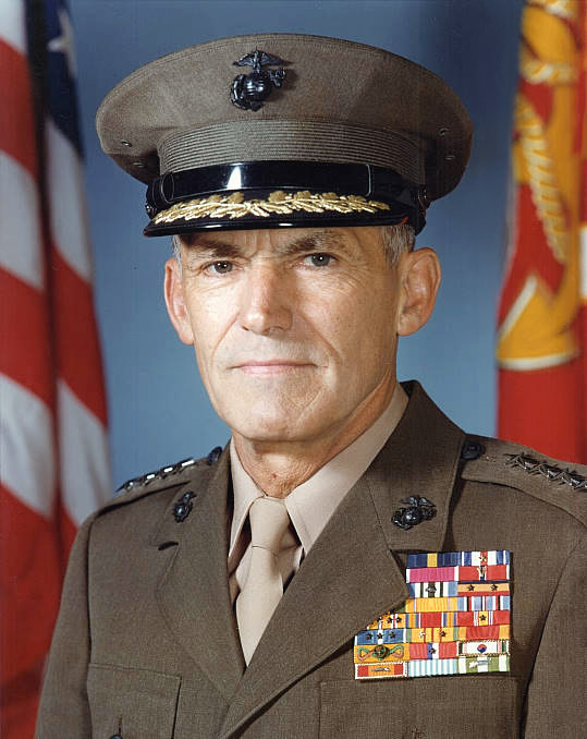 Samuel Jaskilka, Defense Dept. Photo (Marine Corps) A706722